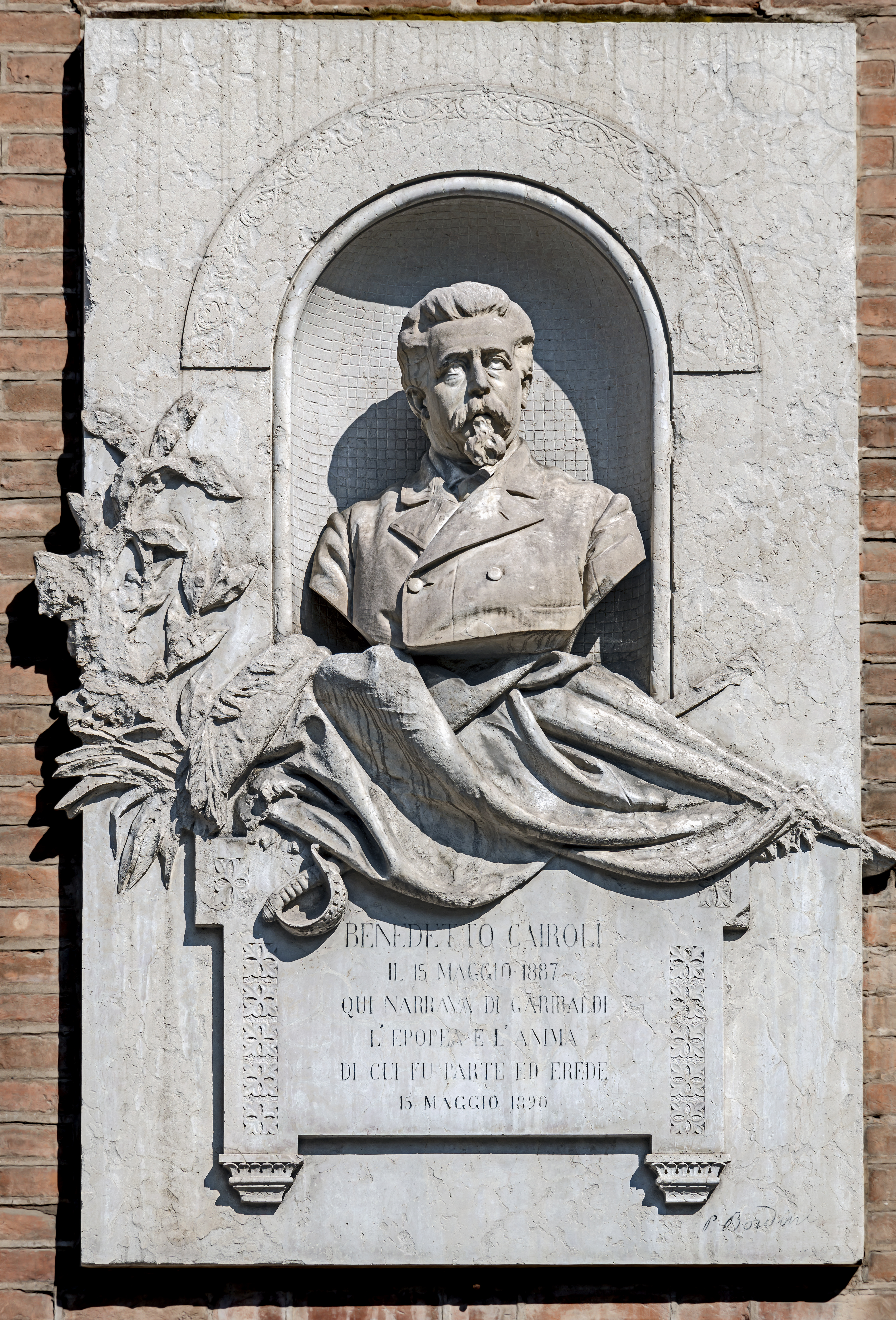 Bust of Benedetto Cairoli by Pietro Bordini on the Piazza Indipendenza in Verona.